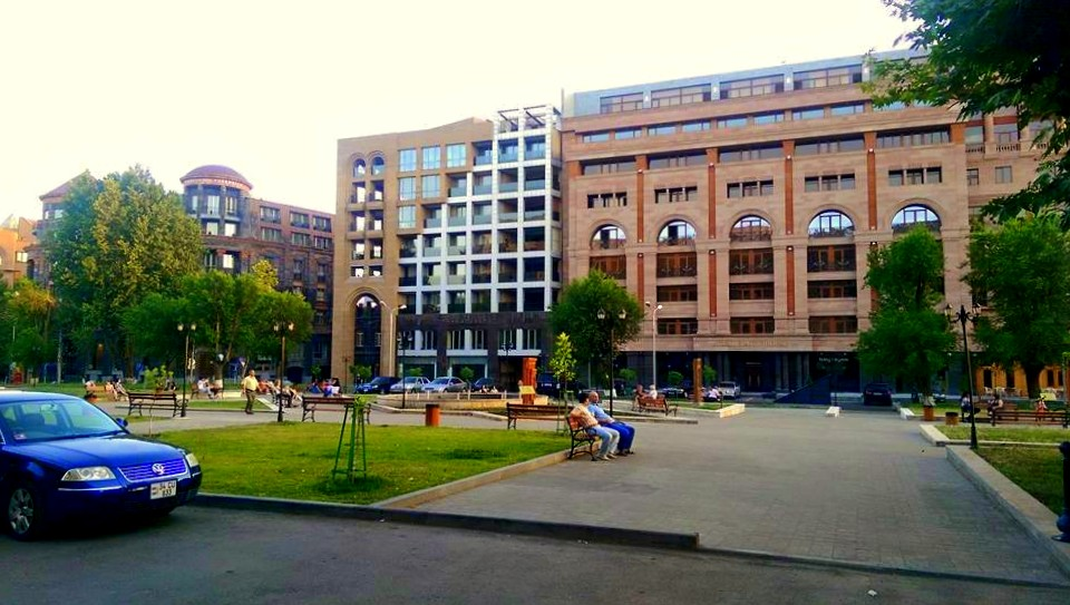 Pavstos Buzand street 2015, Yerevan, Armenia.